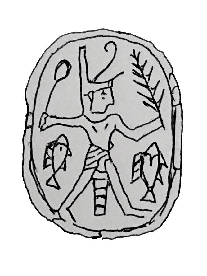 Drawing of a Hyksos scarab depicting an ancient Egyptian pharaoh as a Near-Eastern weather god (or vice versa). The pharaoh is wearing the Red Crown of Lower Egypt. Steatite, from Tell el-Dab'a (ancient Avaris), presumably datable to the late Second Intermediate Period of Egypt. After Keel, "Ein weiterer Skarabäus mit einer Nilpferdjagd, die Ikonographie der sogenannten Beamtenskarabäen und der ägyptische König auf Skarabäen vor dem Neuen Reich", Ägypten und Levante, 6 (1996), p. 135, fig. 24a.